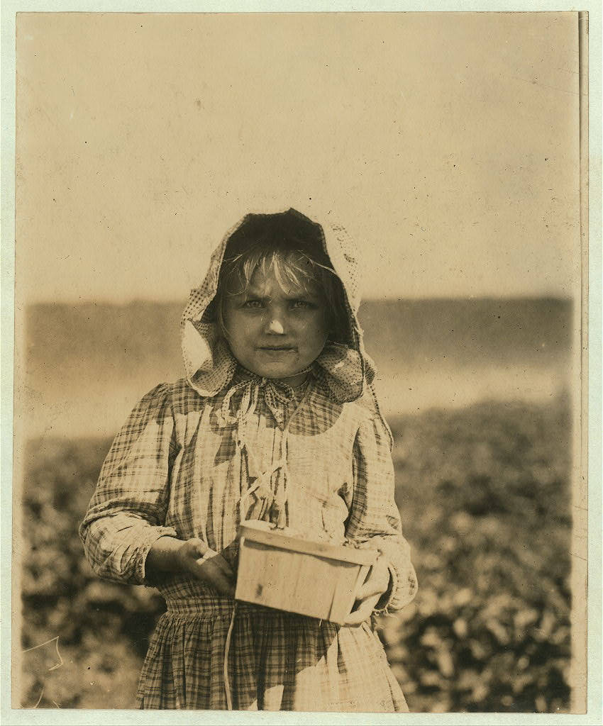 Alberta McNadd on Chester Truitt's farm at Cannon, Del. Alberta is 5 years of age and has been picking berries since she was 3. Her mother volunteered the information that she picks steadily from sun-up to sun-down. Location: Cannon, Delaware.